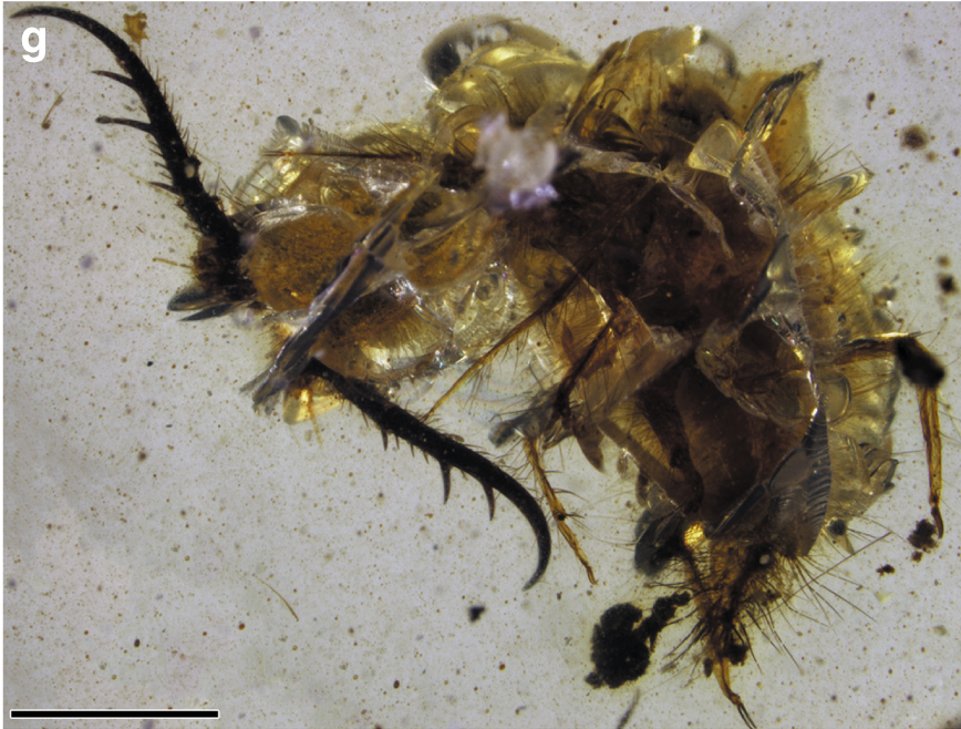 Diversity of the larvae of Myrmeleontiformia in mid-Cretaceous Burmese amber. G) Pristinofossor rictus gen. et sp. nov., holotype. Scale bar: 0.5 mm